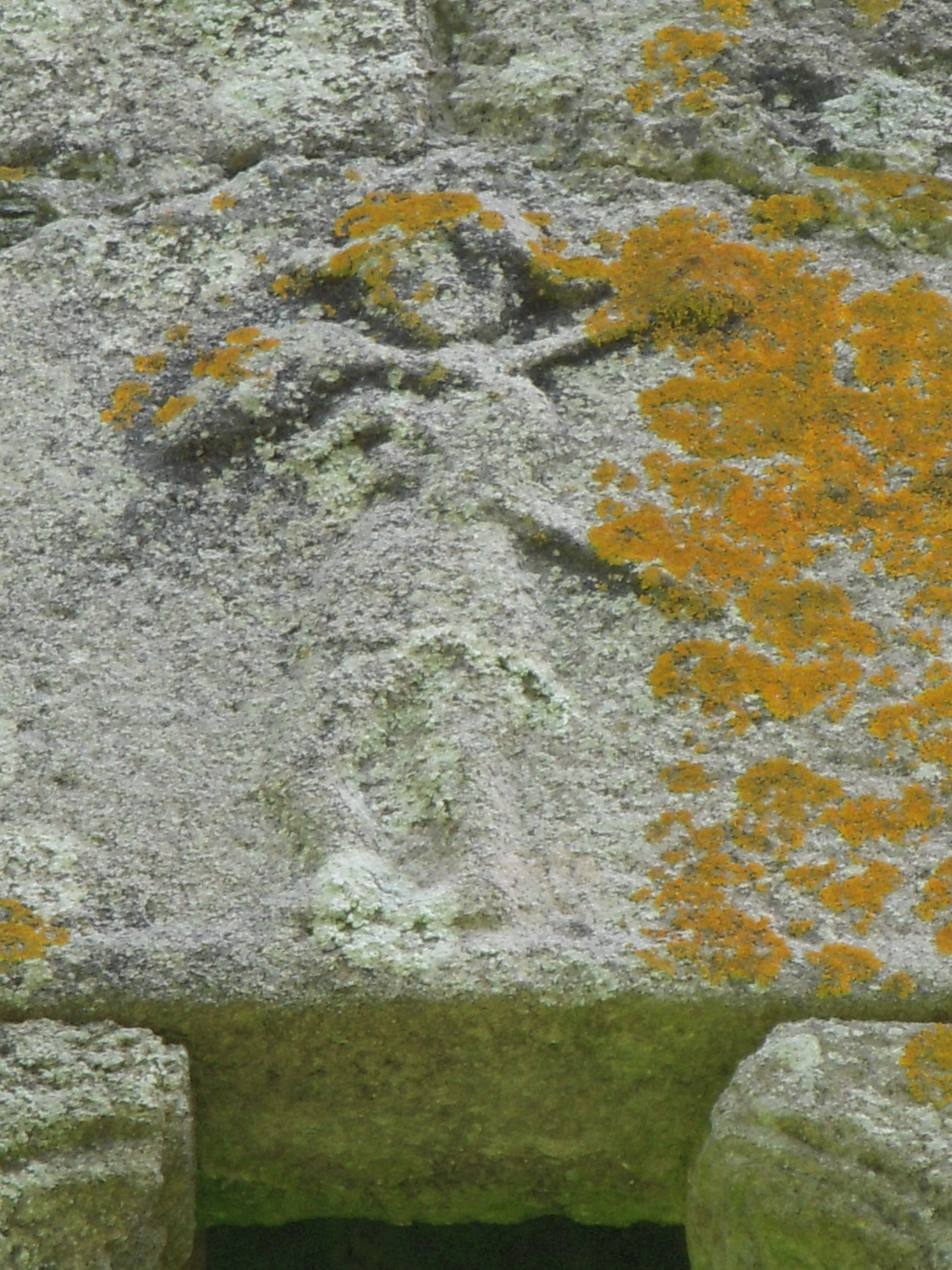 In the side north of the tower, have this wonderful relief of a piper.